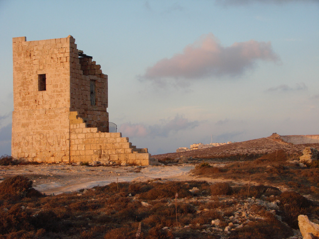 Republic of Malta, Mellieħa - Ruins of Għajn Żnuber Tower, on north-east coast of Malta; Mellieħa on background. Since this photo was taken, the tower was restored back to its original state.